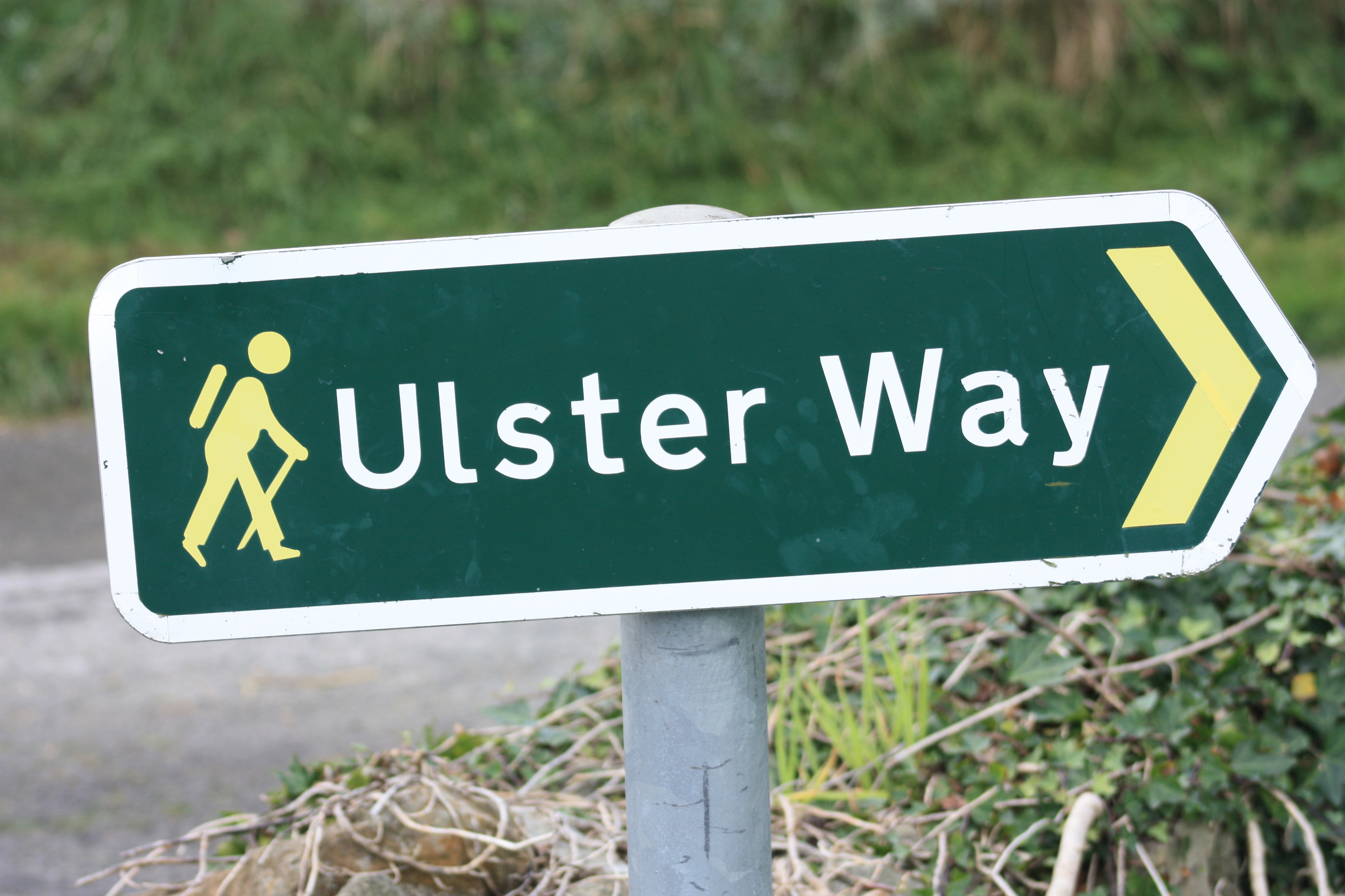 Ulster Way sign, near Castle Ward, Strangford, County Down, Northern Ireland, August 2009